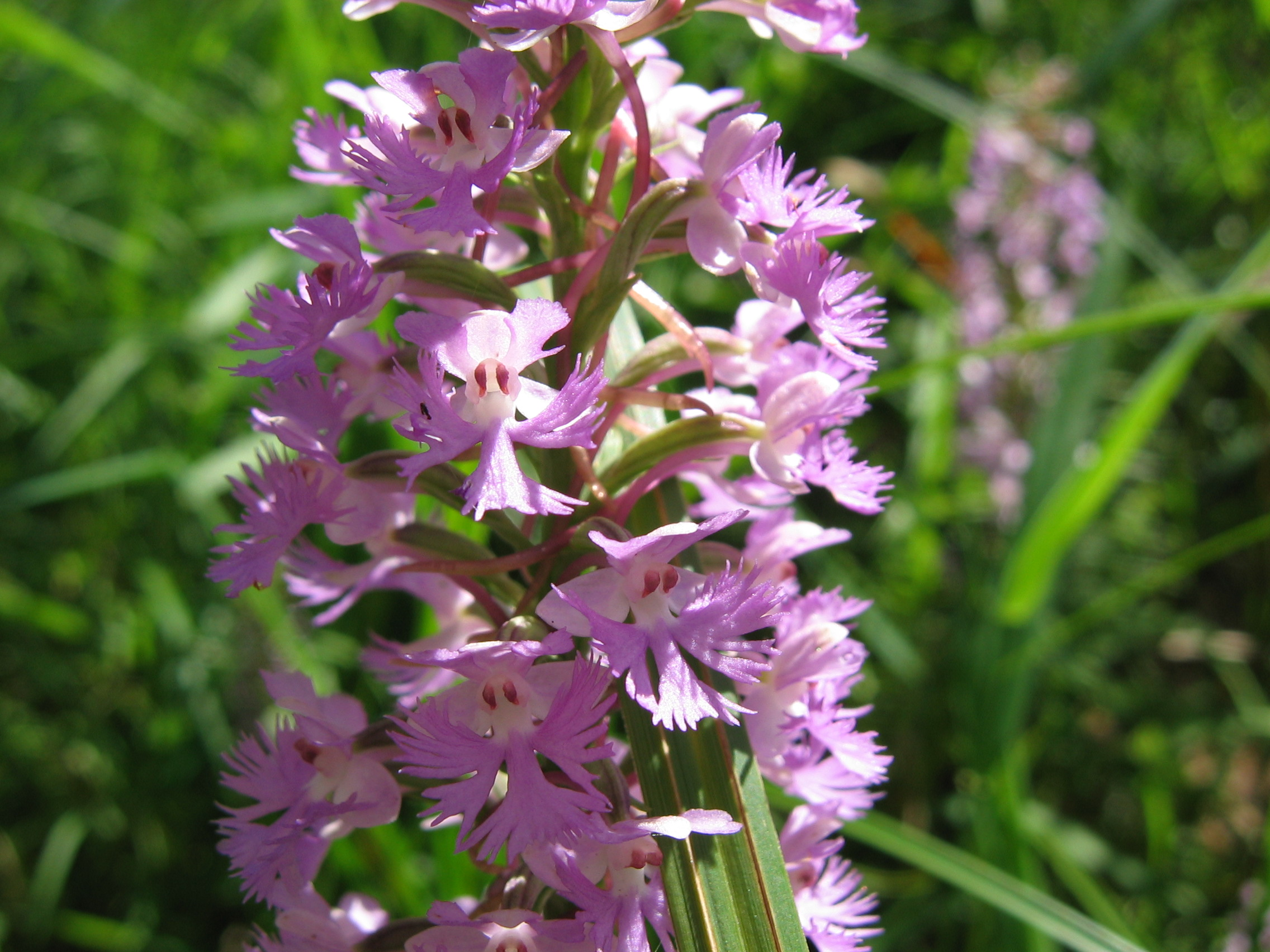 Orchid, Platanthera psycodes